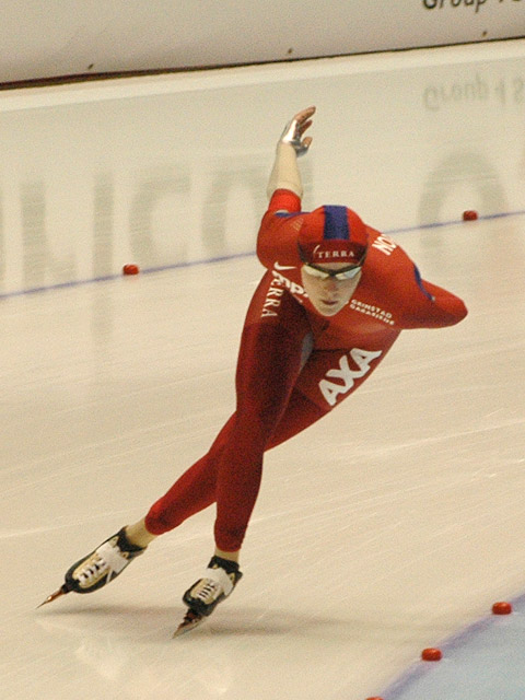 Maren Haugli at the World Championships 2007 in Heerenveen.